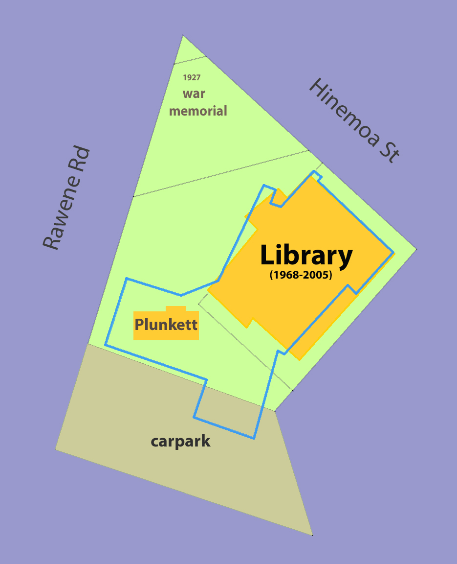 Footprint of first version of new Birkenhead Public Library in comparison to old library. Based on North Shore City Council GIS on Oct 5, 2005. All line, scale approximate; illustrative only.